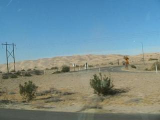 Imperial Sand Dunes Rec. Area viewed from I-8 West